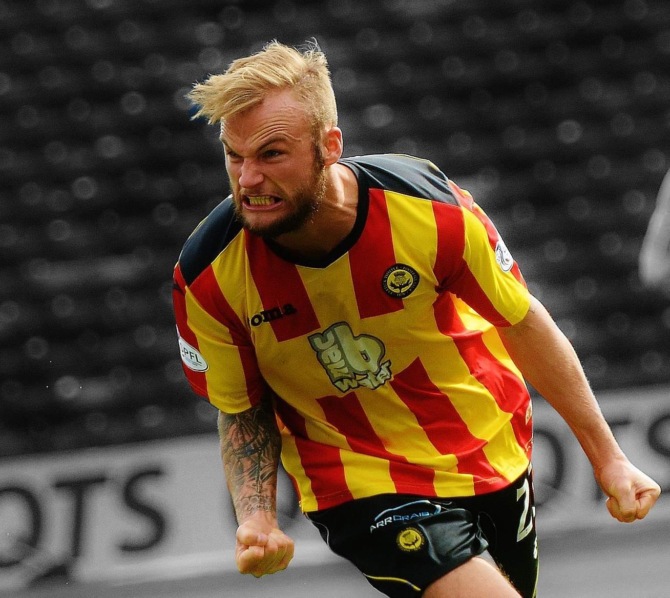 Kallum Higginbotham celebrates after scoring against Kilmarnock FC